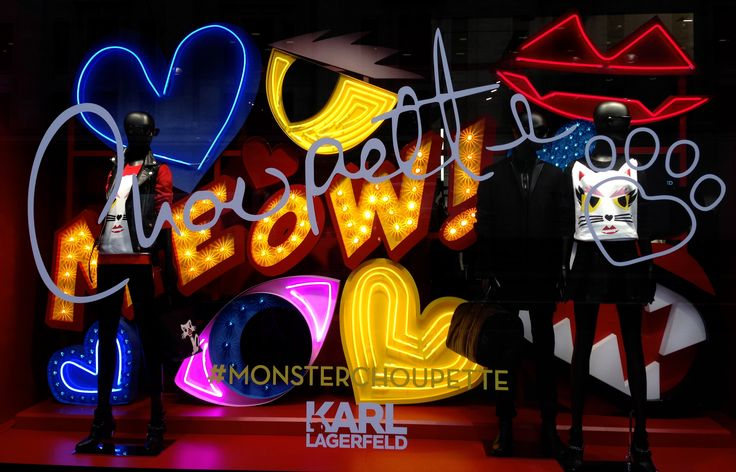 Karl Lagerfeld store window on Regent Street, London